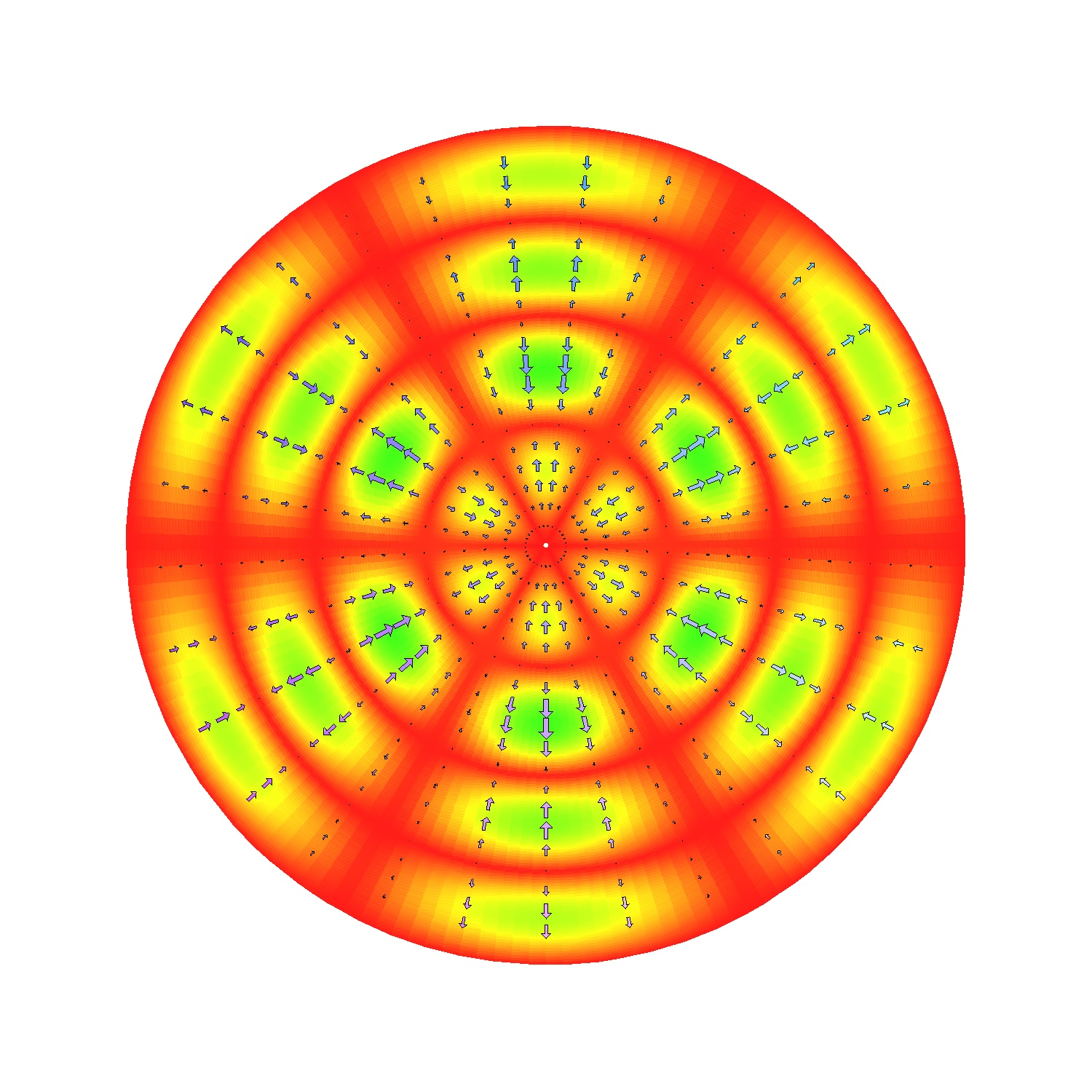 Plot of E and H fields on the TEnl mode defined by n and l.